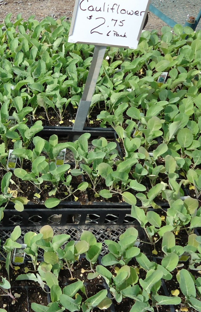 Cauliflower plants in a nursery in Cranford, New Jersey on April 14, 2012 (correct date).